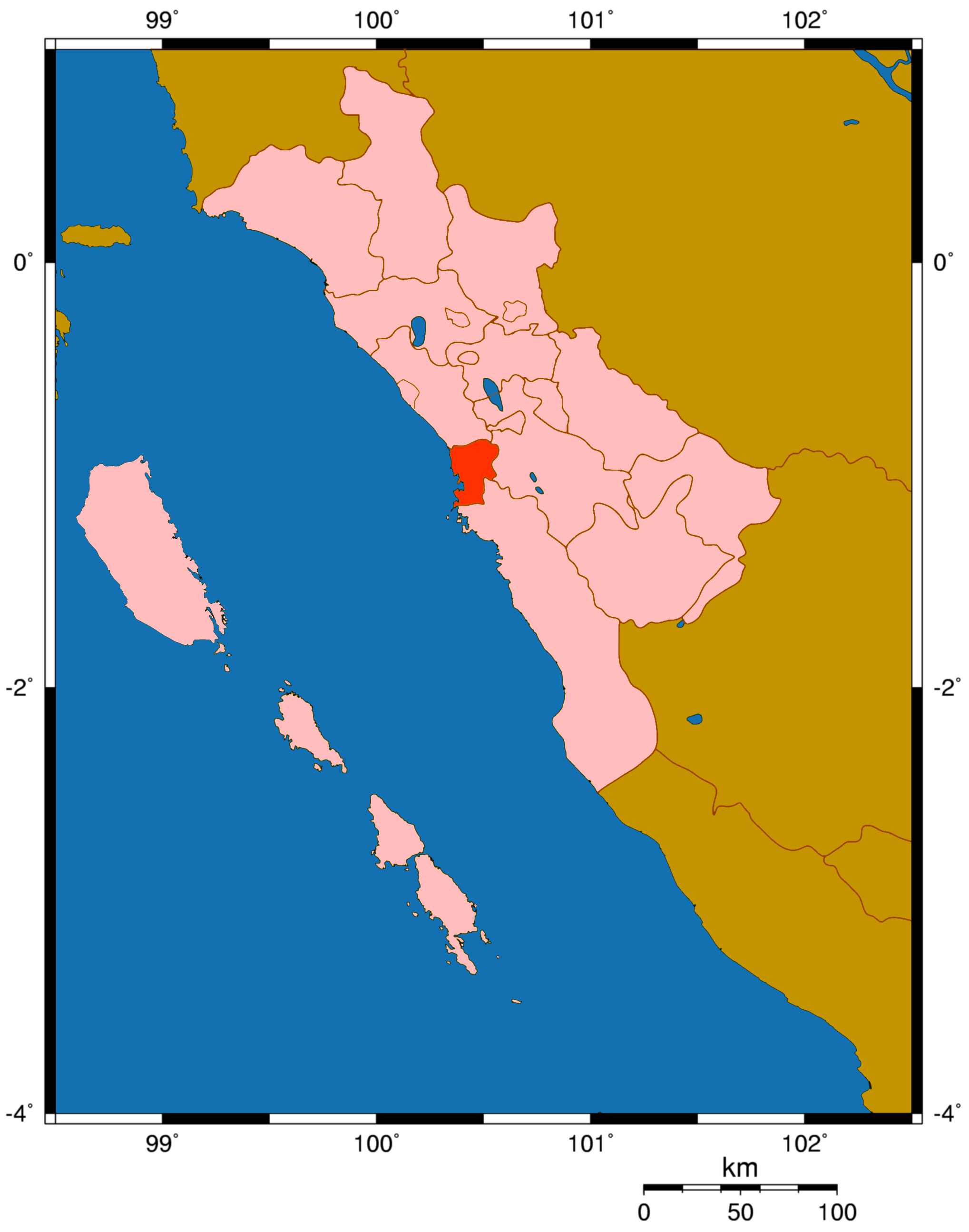 Location map of Padang in West Sumatra.